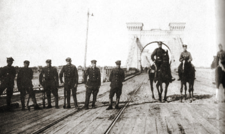 Polish soldiers on the main bridge in Kiev, May 1920